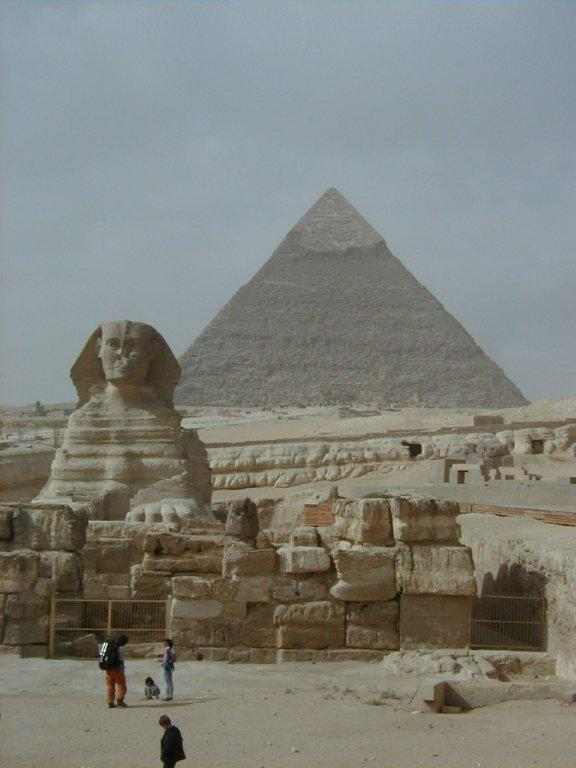 The Great Sphinx and the pyramid of Chefren outside cairo, Egypt